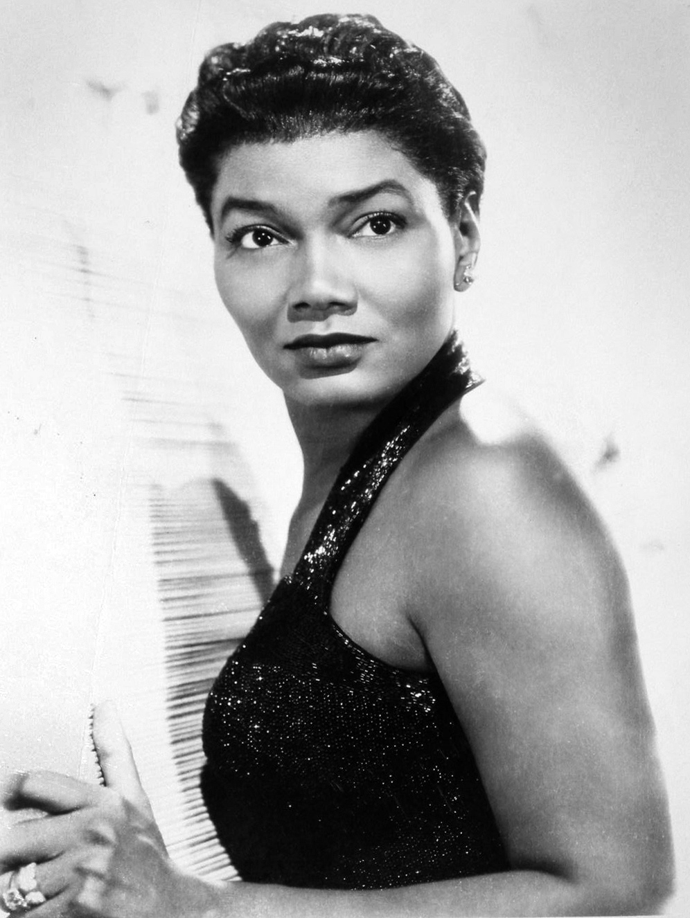 Publicity photo of Pearl Bailey. See agency photo copy.